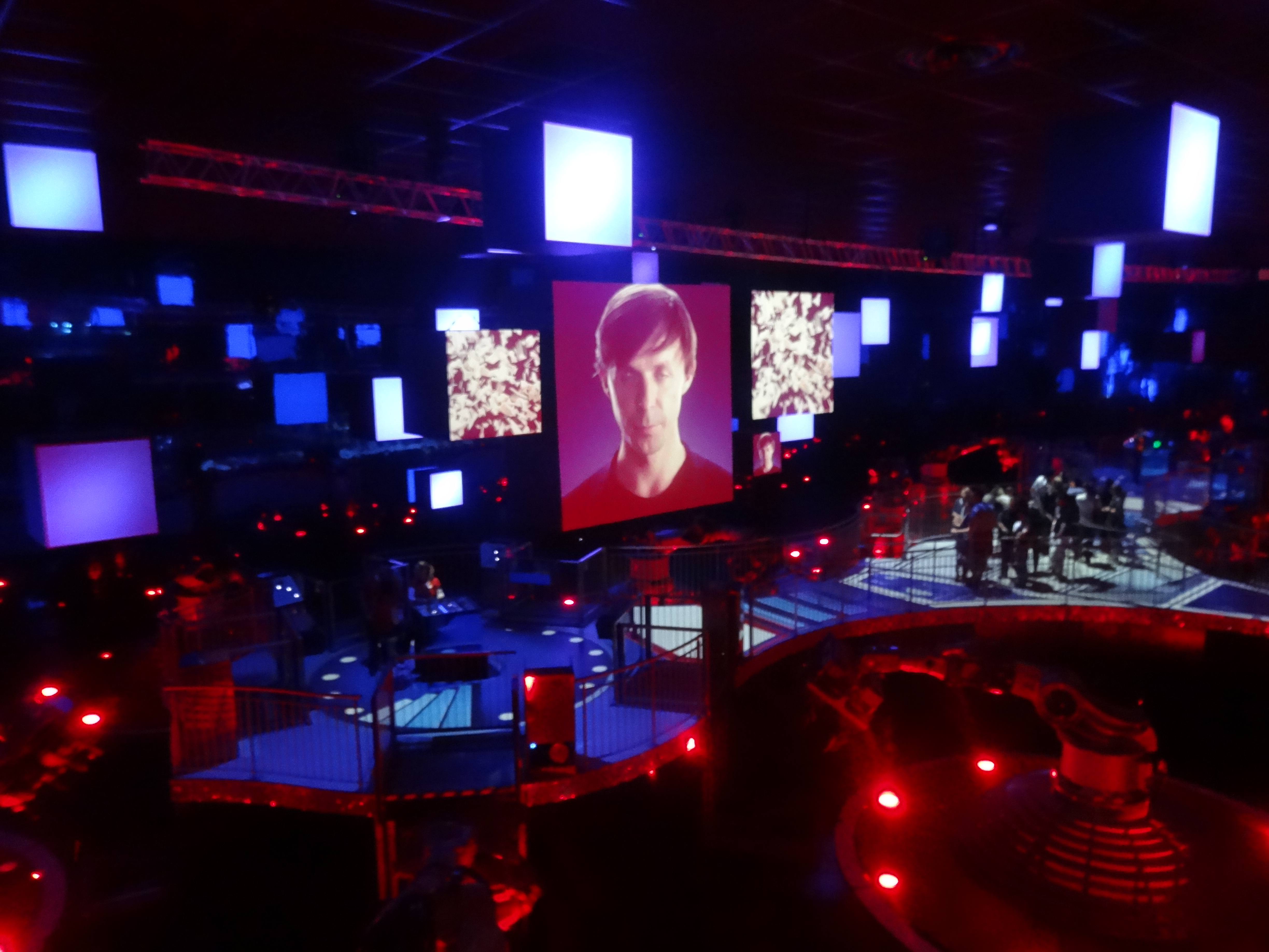 Futuroscope.Danse avec les Robots